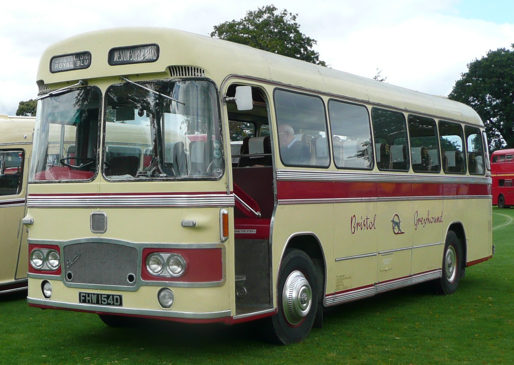 Preserved Bristol Greyhound FHW 154D, a Bristol MW6G/ECW, at the 2008 Alton bus rally at Anstey Park.